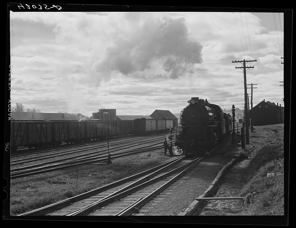 At the railroad terminal in Caribou, Maine